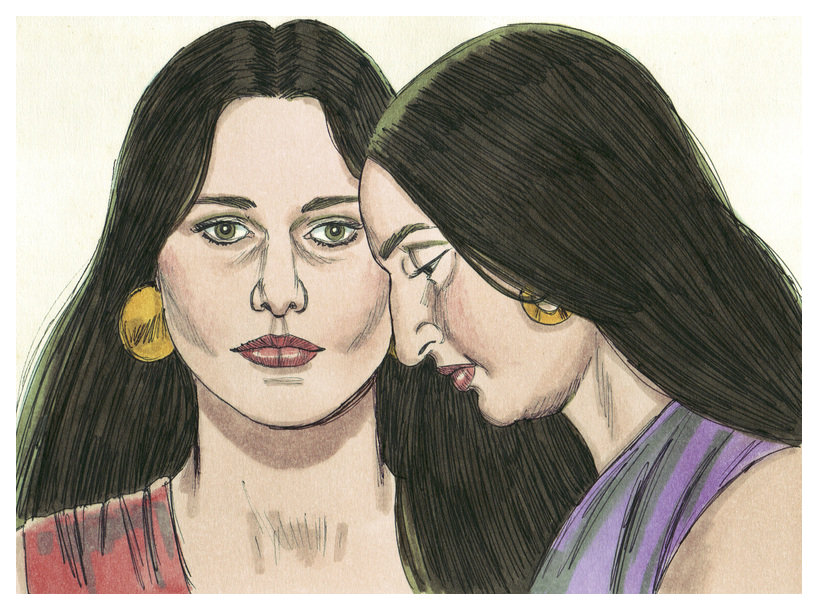 Biblical illustration of Book of Genesis Chapter 29